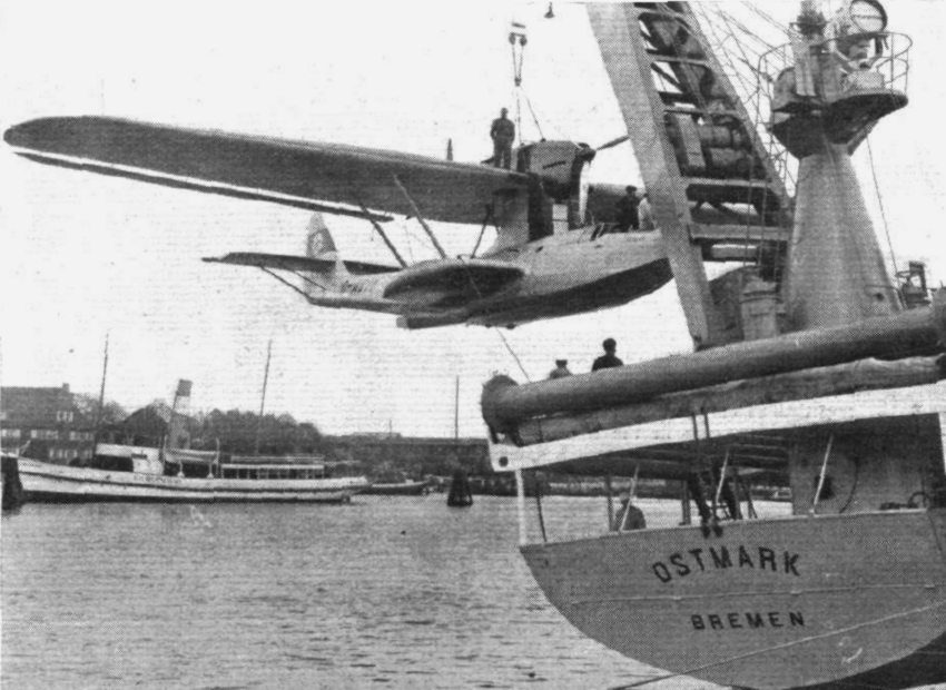 The German Lufthansa Dornier Do 18E flying boat (D-ABYM "Aeolus") being hoisted aboard the catapult ship Ostmark off Lübeck.